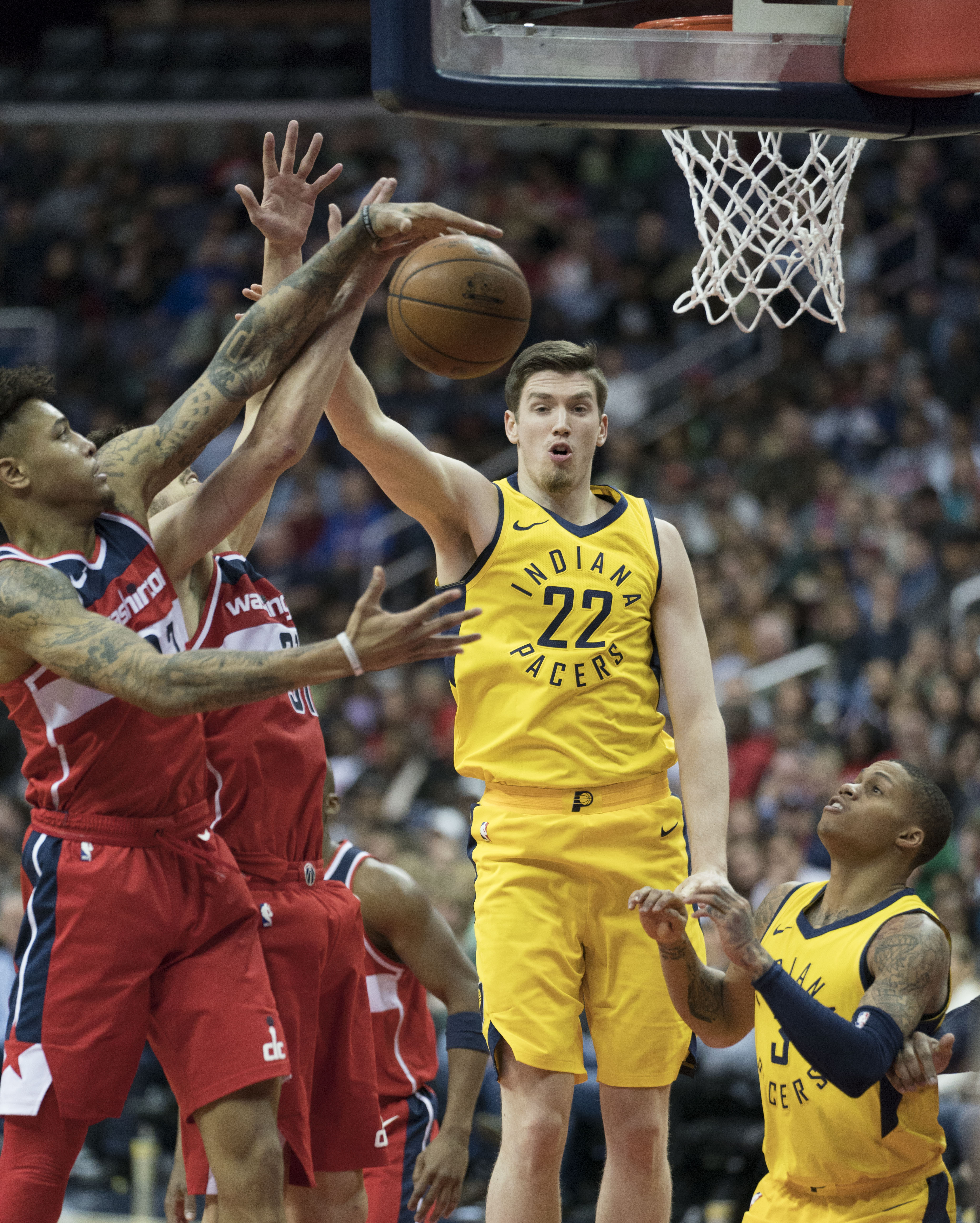 Pacers at Wizards 3/17/18